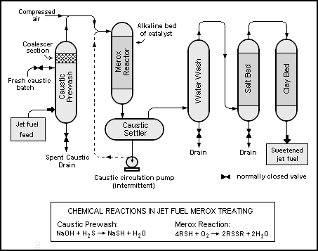 I drew this flow diagram myself using Microsoft's Paint program and uploaded it into the English Wikipedia a few days ago. I am now uploading it into Commons. - Mbeychok 22:21, 15 January 2007 (UTC)